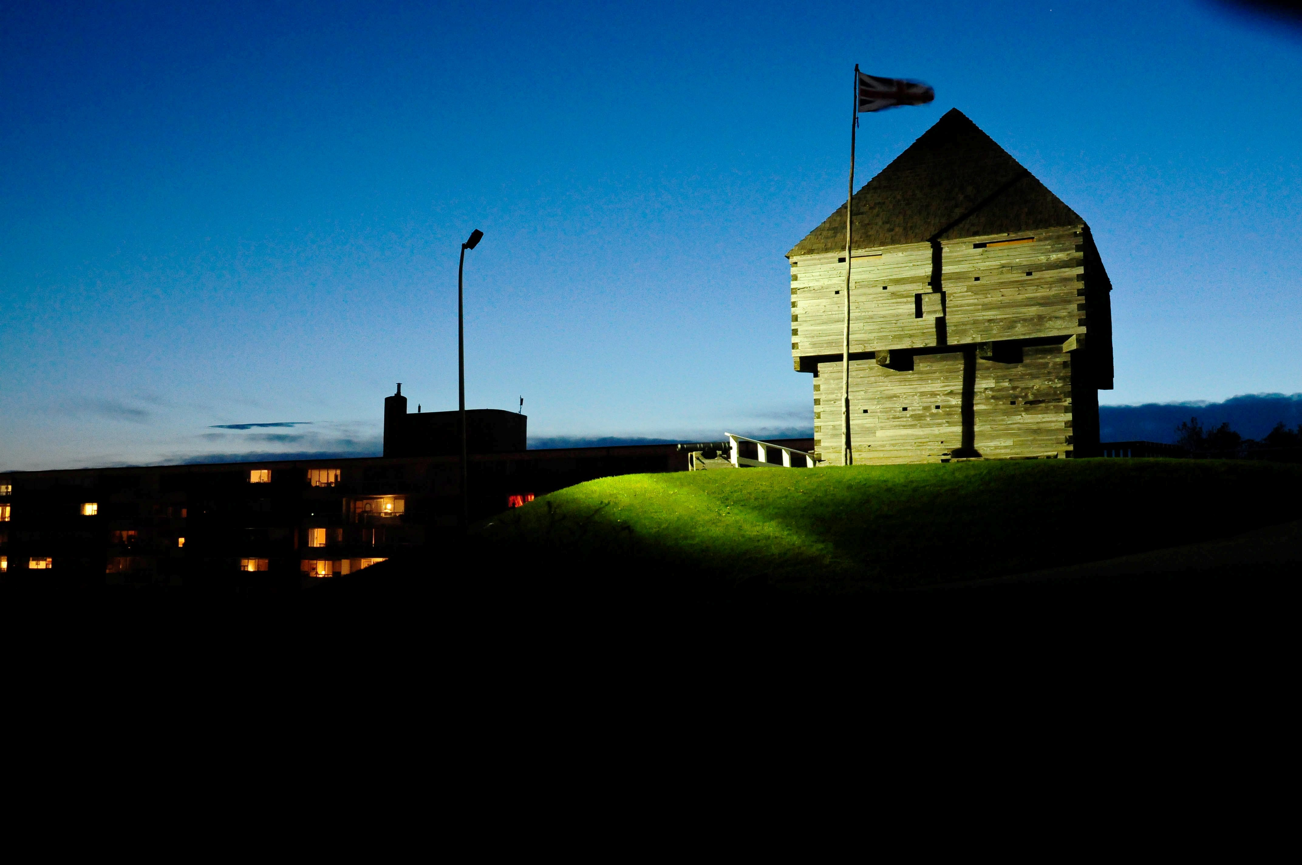 Fort Howe in Saint John, New Brunswick, Canada.